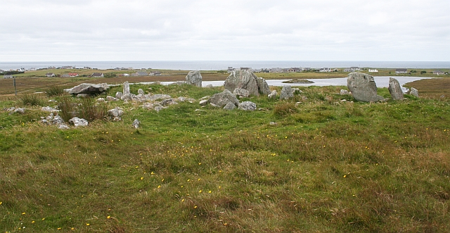 Steinacleit Neolithic Burial Cairn The large stones form a kerb to the cairn some 50 feet across. In the distance is Loch an Dun with the Dun or man made island in it.